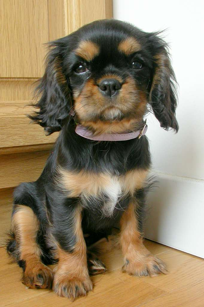 Cavalier King Charles black and tan (3 months old)